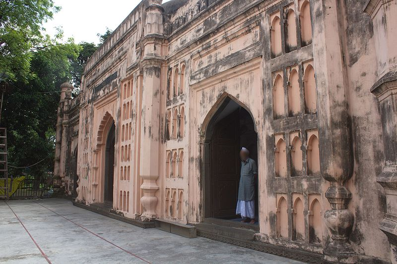 Shahbaz Khan Mosque taken on September 26, 2018